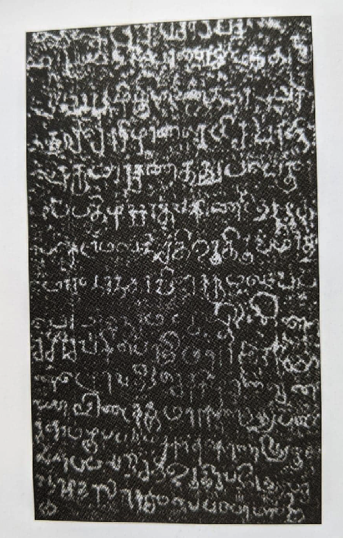 Slab 1 Anuradhapura Hindu ruins